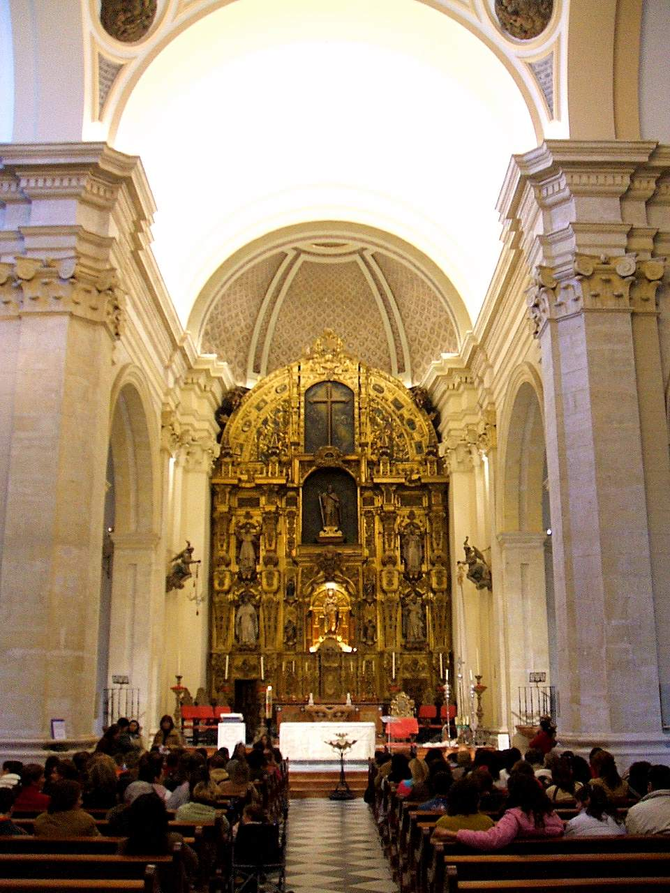 Iglesia de la Santa Cruz, Écija